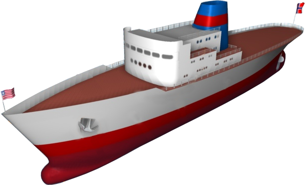 Ship illustration